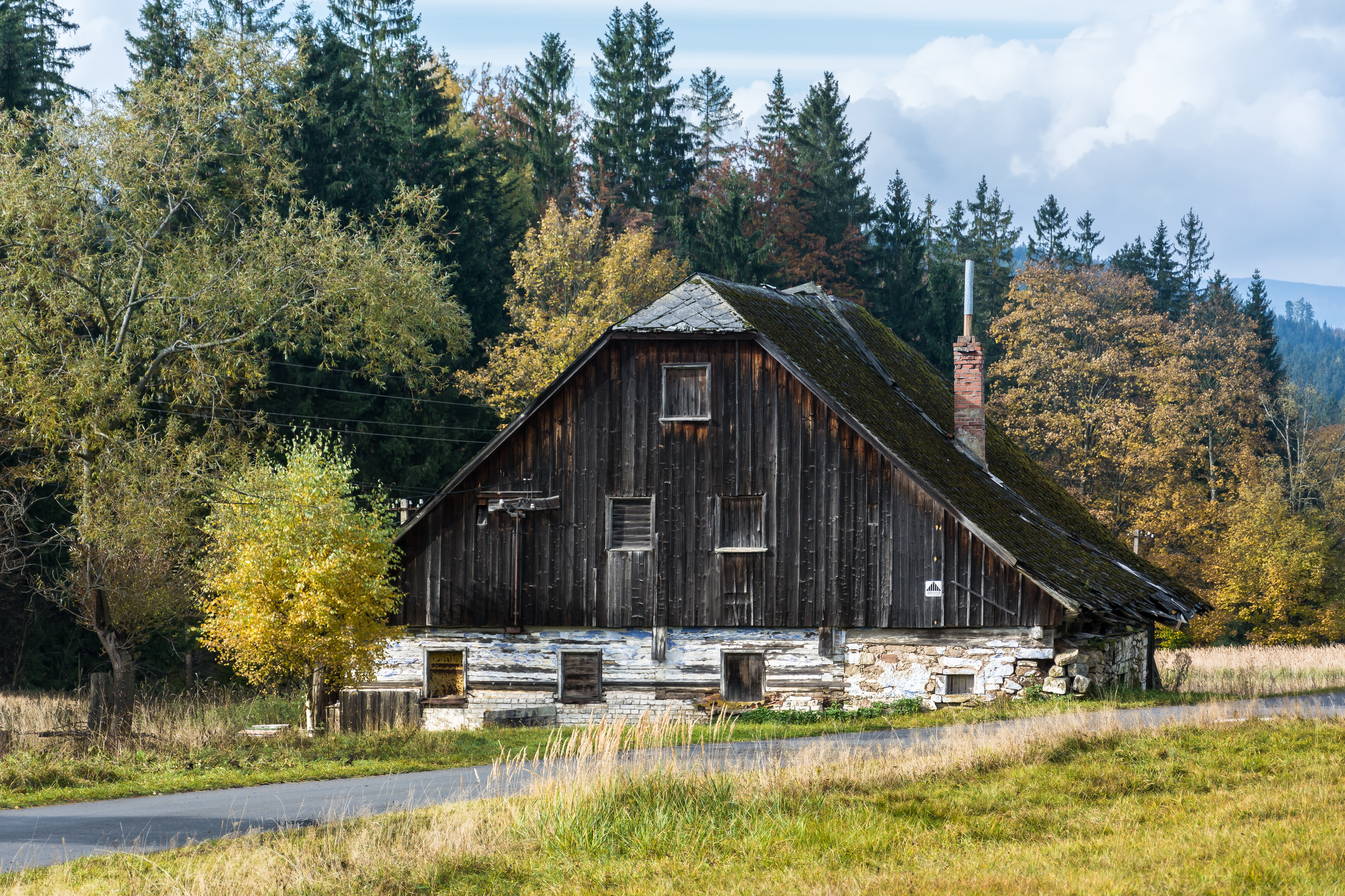 Special habitat protection area: Bystrzyca Łomnicka Valley. Spalona, Sudeten House This is a photography of protected area with CRFOP ID PL.ZIPOP.1393.N2K.PLH020083.H